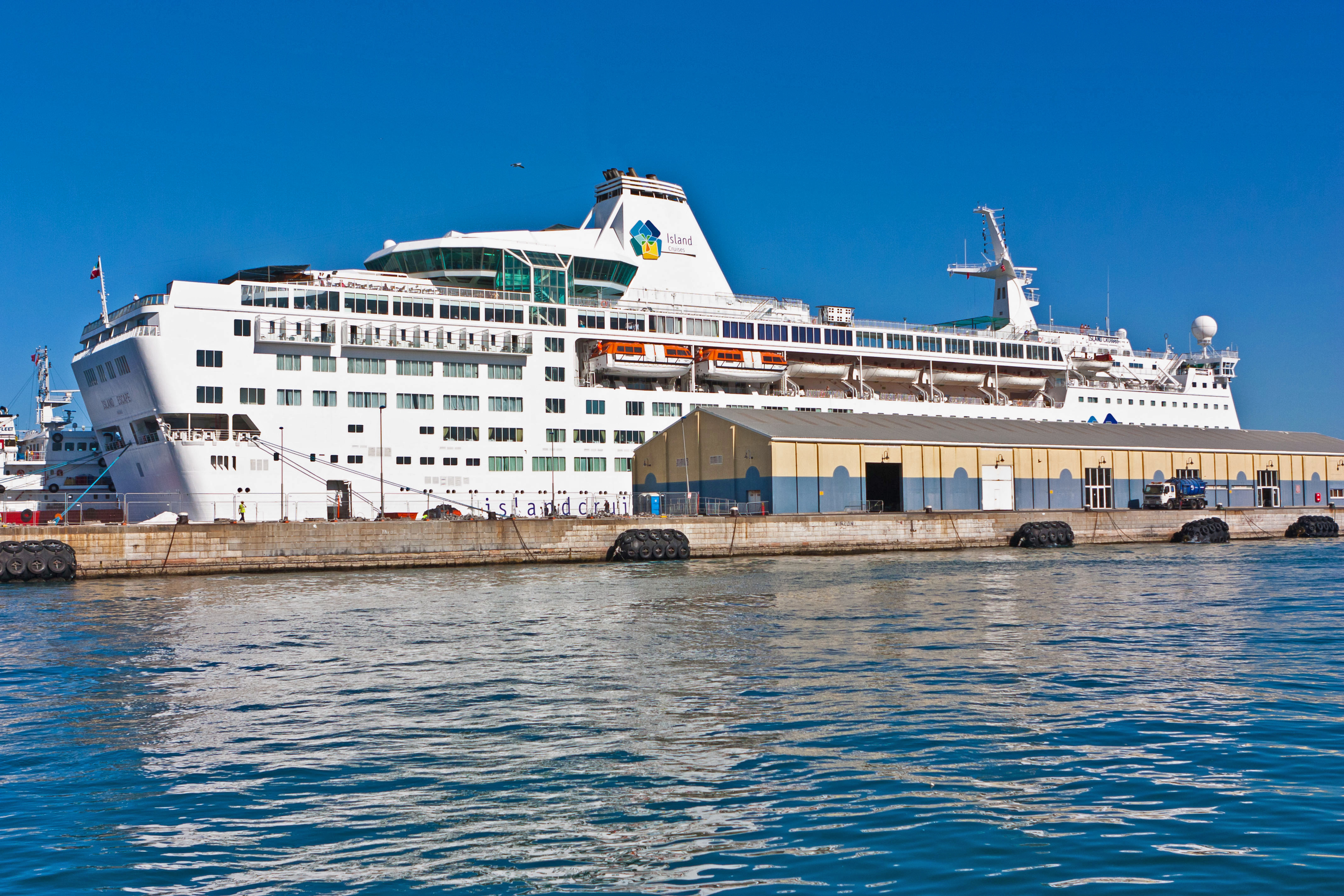 Island Cruises' Island Escape berthed alongside the Gibraltar Cruise Terminal at the Western Arm of the North Mole, Gibraltar Harbour.